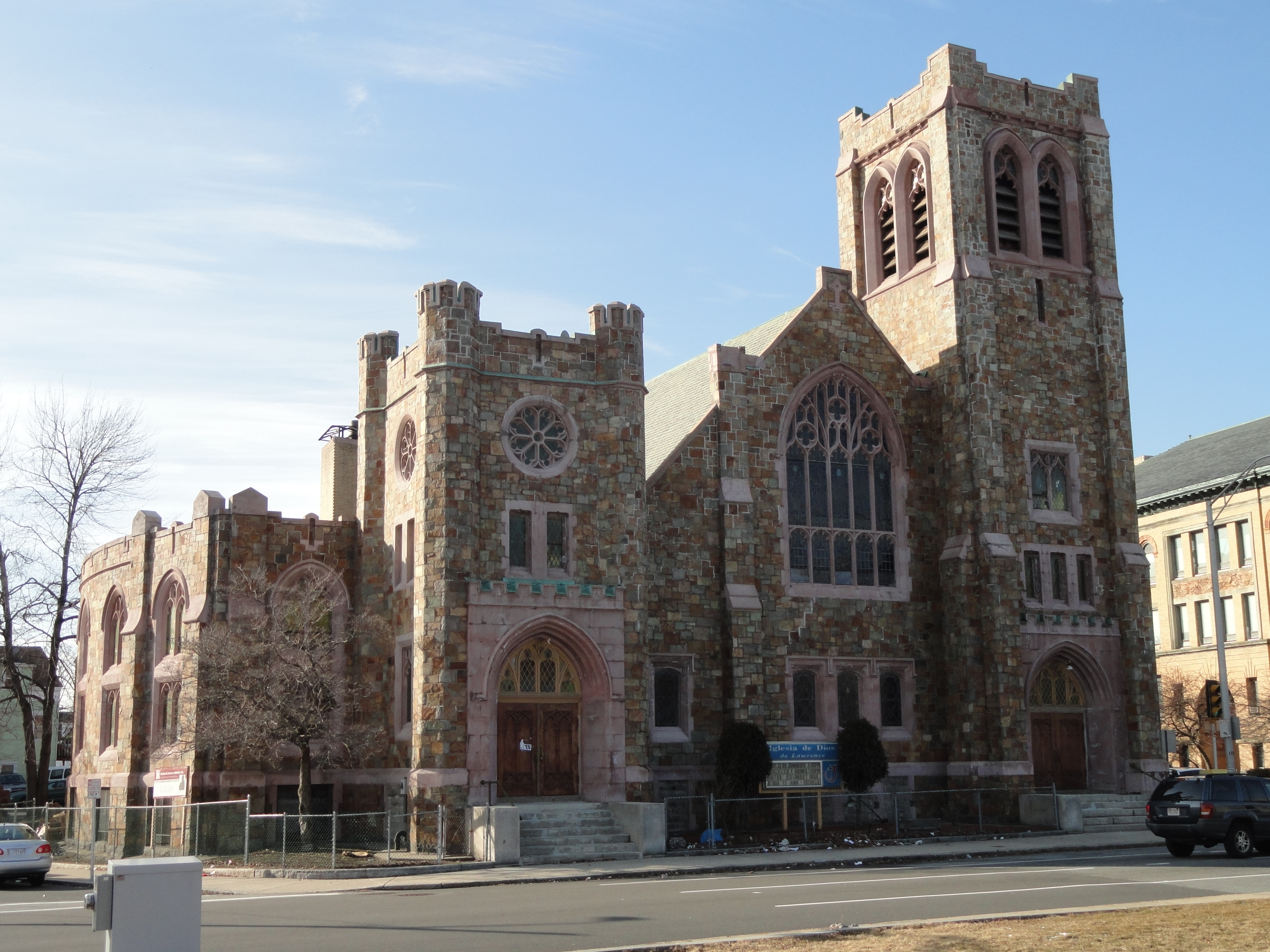 Building on Compagnone Common, in Lawrence, Massachusetts, USA.